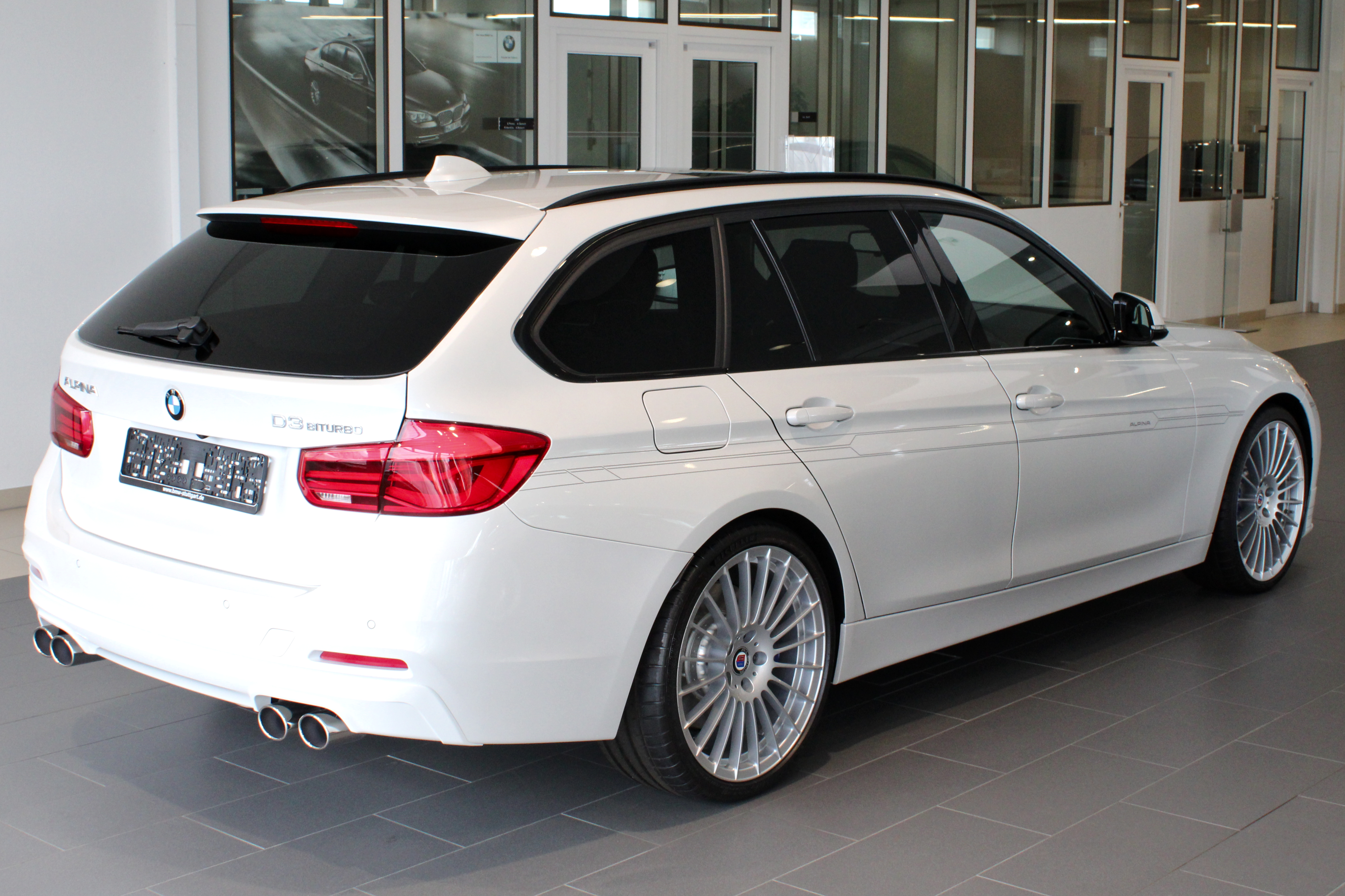 Alpina D3 (F31) in Stuttgart-Vaihingen